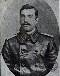 Mülazım-ı sani Nuri Efendi (Bey)